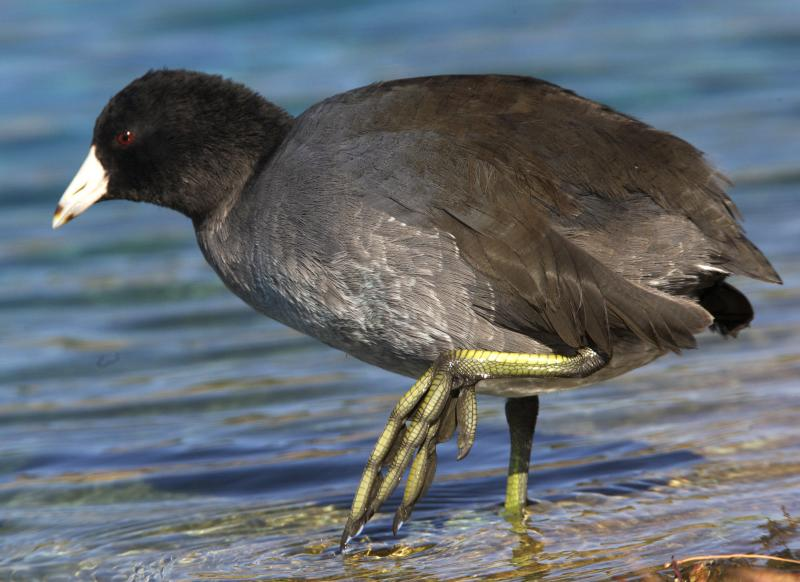 American coot Fulica americana Las Vegas suburbs, Nevada, USA November 9 2010 Distribution: 690V4548